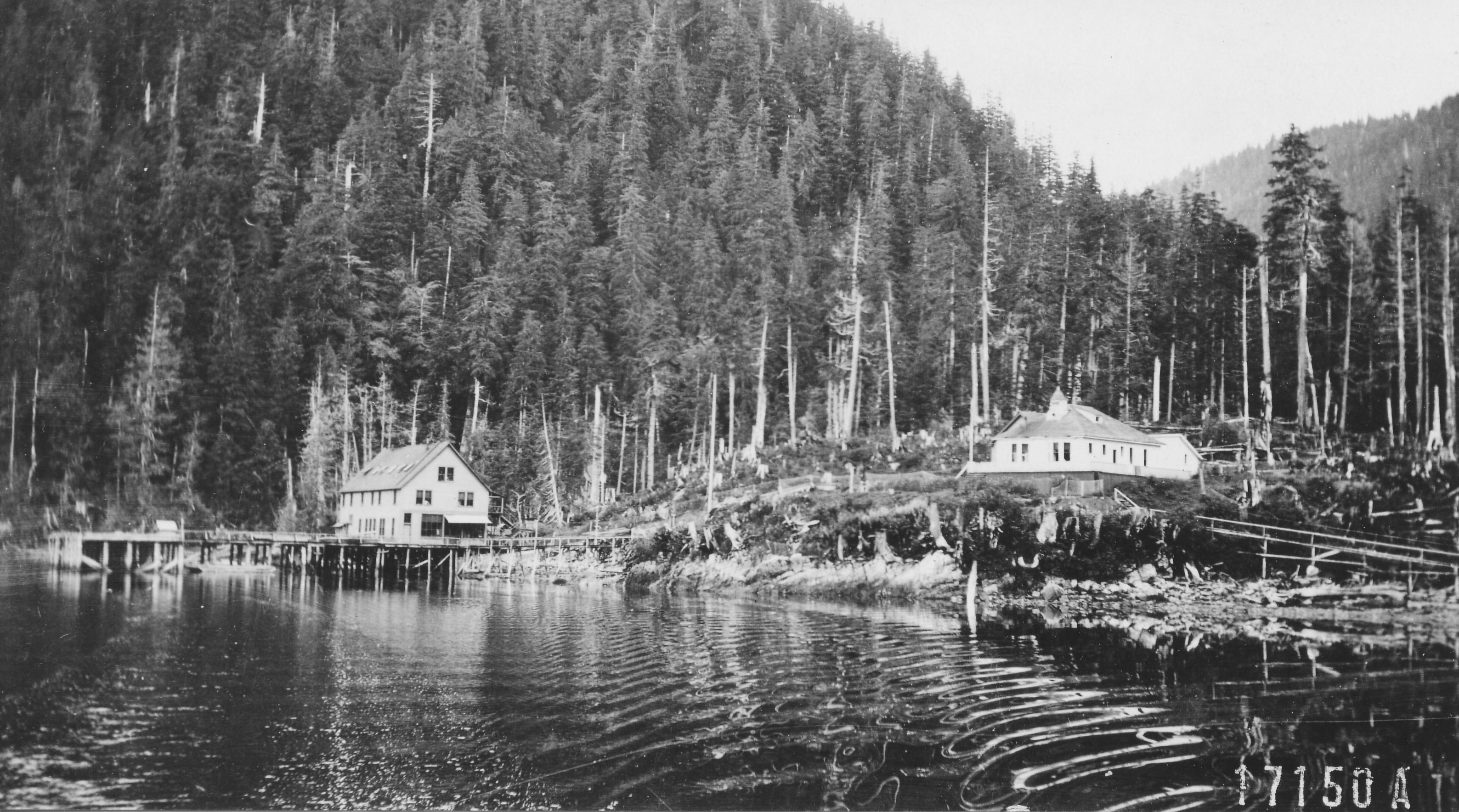 The settlement of Sulzer, on Hetta Inlet, Prince of Wales Island, Alaska.